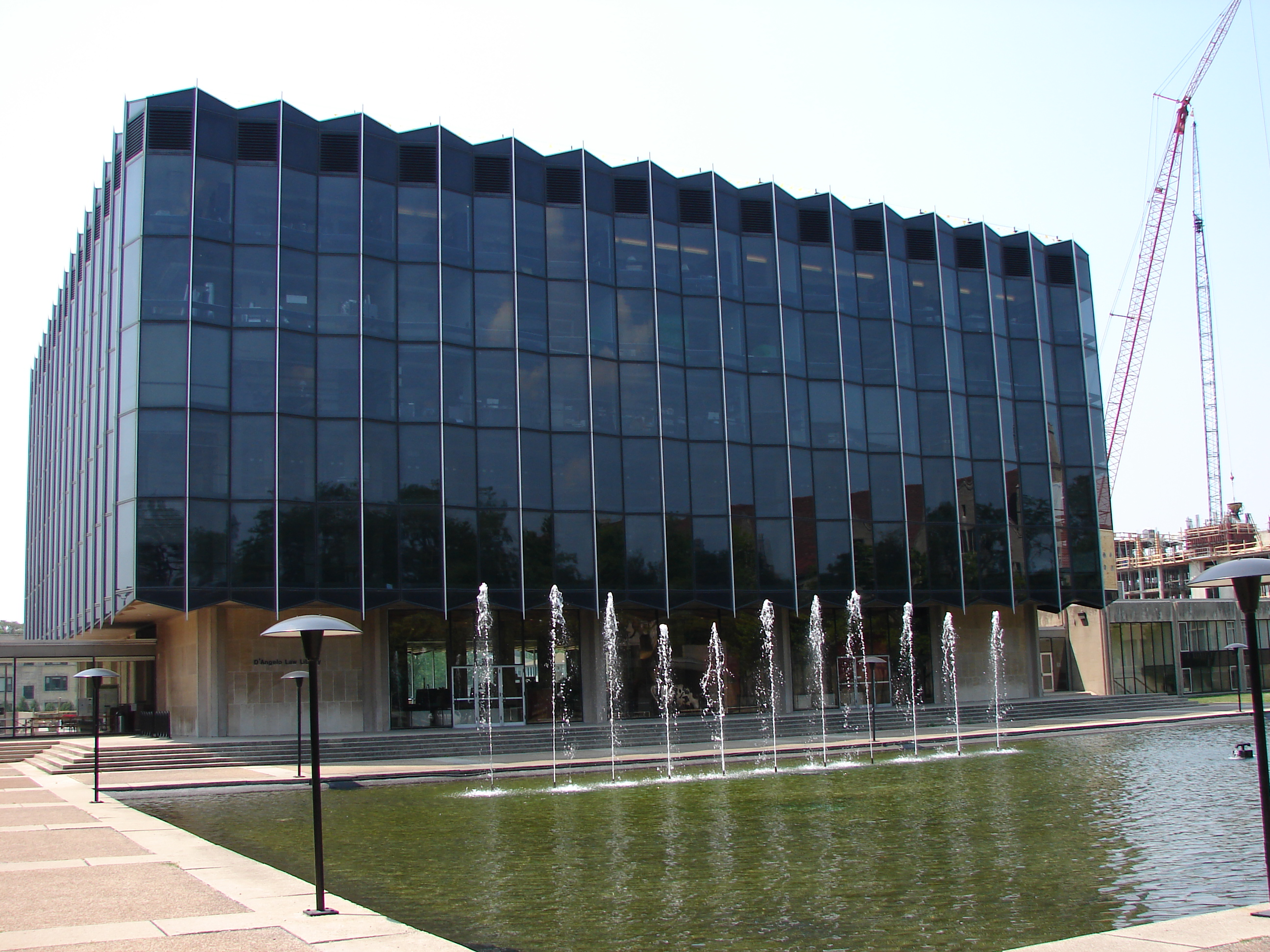 Designed by Saarinen and built in 1960. University of Chicago Law School.